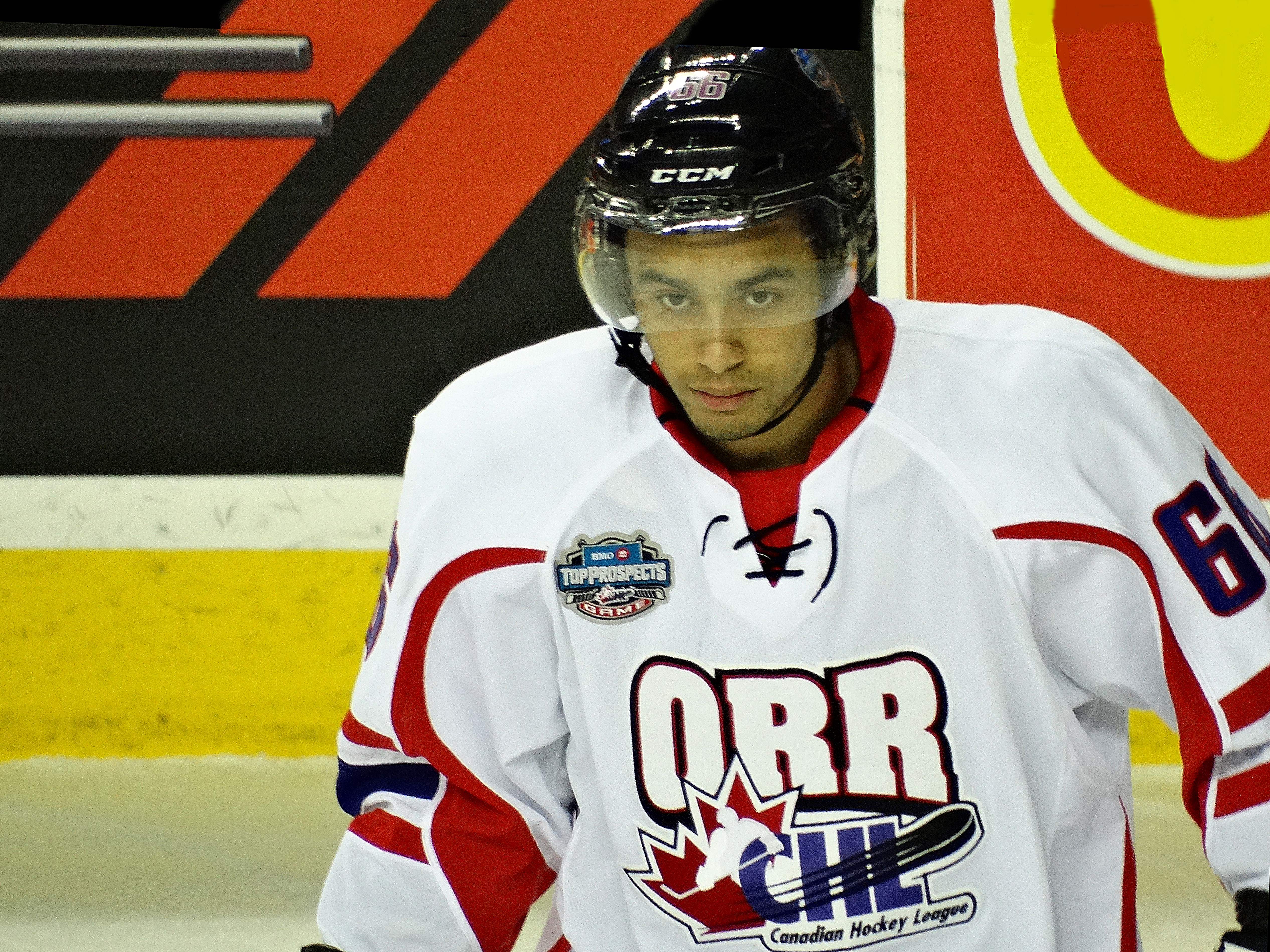 Joshua Ho-Sang, Canadian ice hockey forward at the CHL / NHL Top Prospects Game